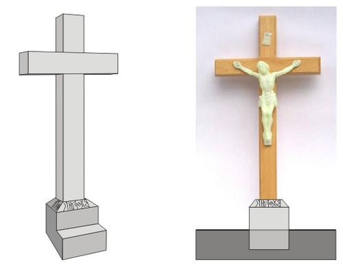 A possible reconstruction of the crucifix of the Vargyas Relic. The sentence was cited from the Gospel of John: “Woman, behold your son”. G. Ferenczi supposed that the relic served as a support for a statue. The stone could have been the foundation of a crucifix or a statue representing the scene of Calvary, based on its shape and the meaning of the Szekely-Hungarian rovas inscription.